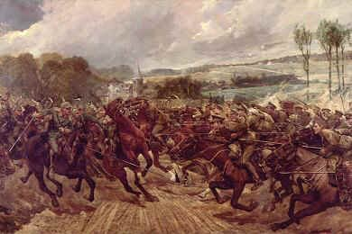 Depicts the charge of a squadron of the 9th Lancers against the Prussian Dragoons of the Guard at Moncel on the 7th September 1914. This was Cavalry action in the First World War when cavalry charged with both sides at full gallop. The 9th Lancers casualties were 3 killed and 7 wounded compared to heavy losses suffered by the Prussian Dragoons.